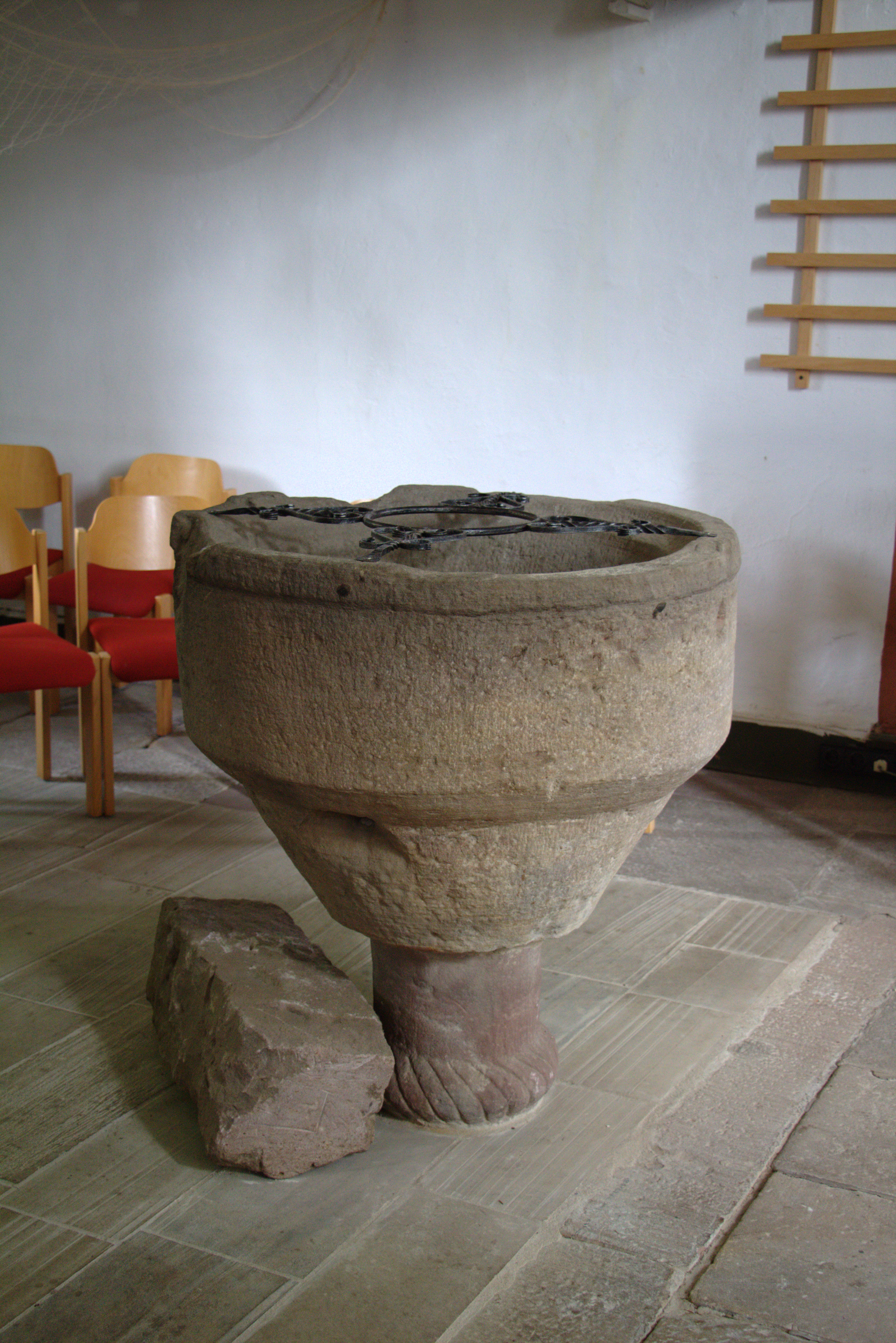 Protestant Church (Baptismal font) in Grebenhain, Crainfeld, Hesse, Germany